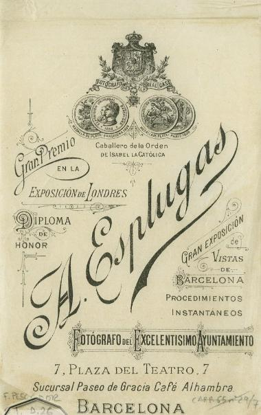 Antonio Esplugas Puig (Barcelona 1852 - 1929) was a Catalan photographer.